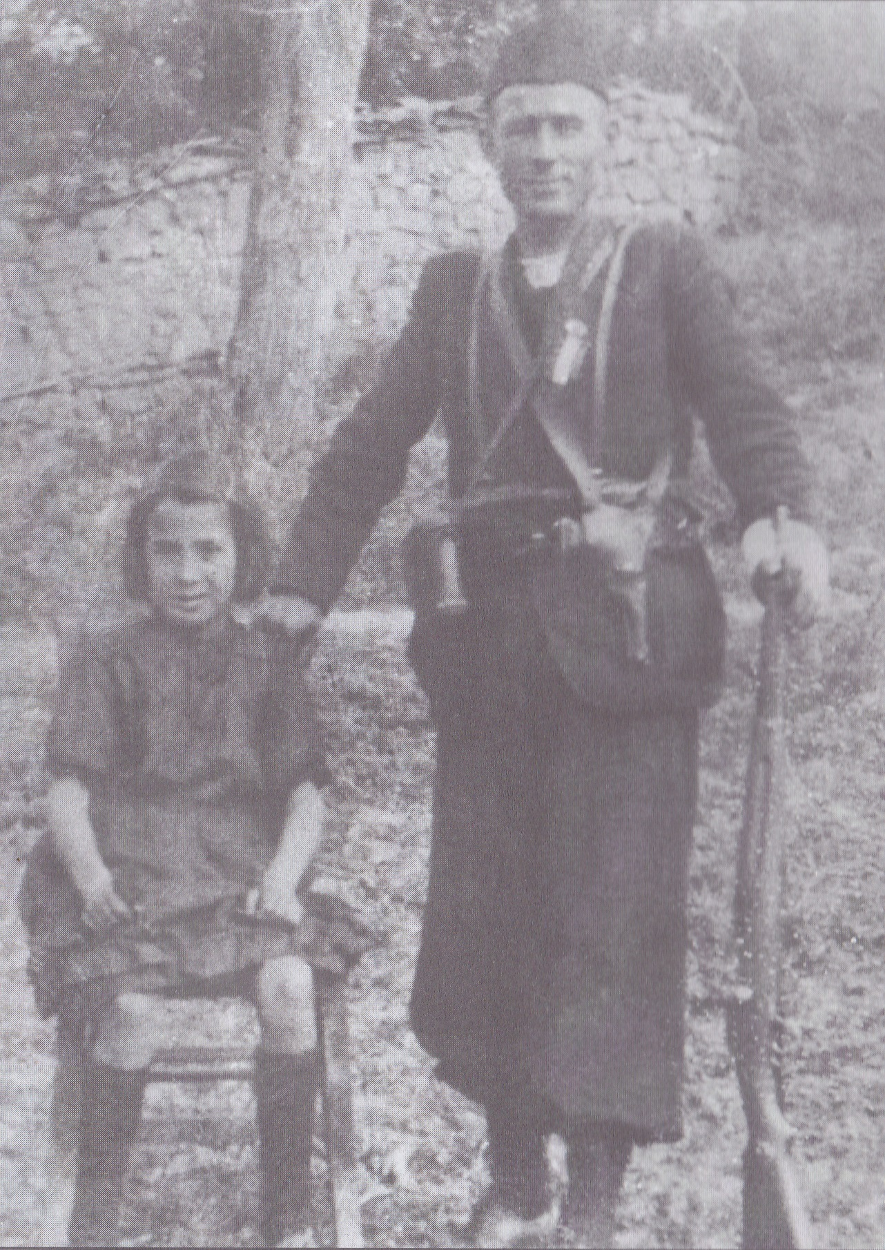 Vasil Zhivkov Starichani